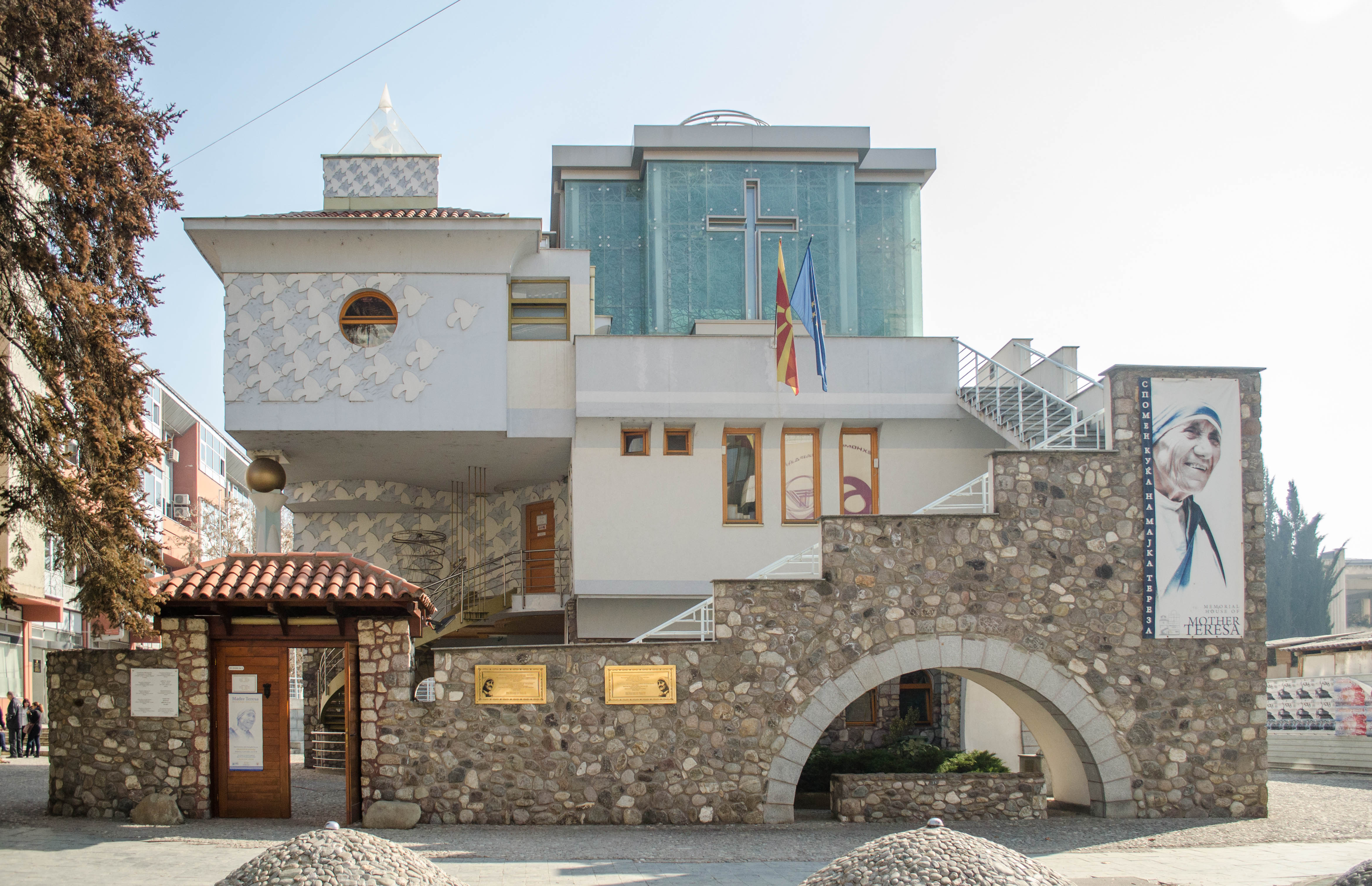 A photo from the Memorial House Of Mother Teresa